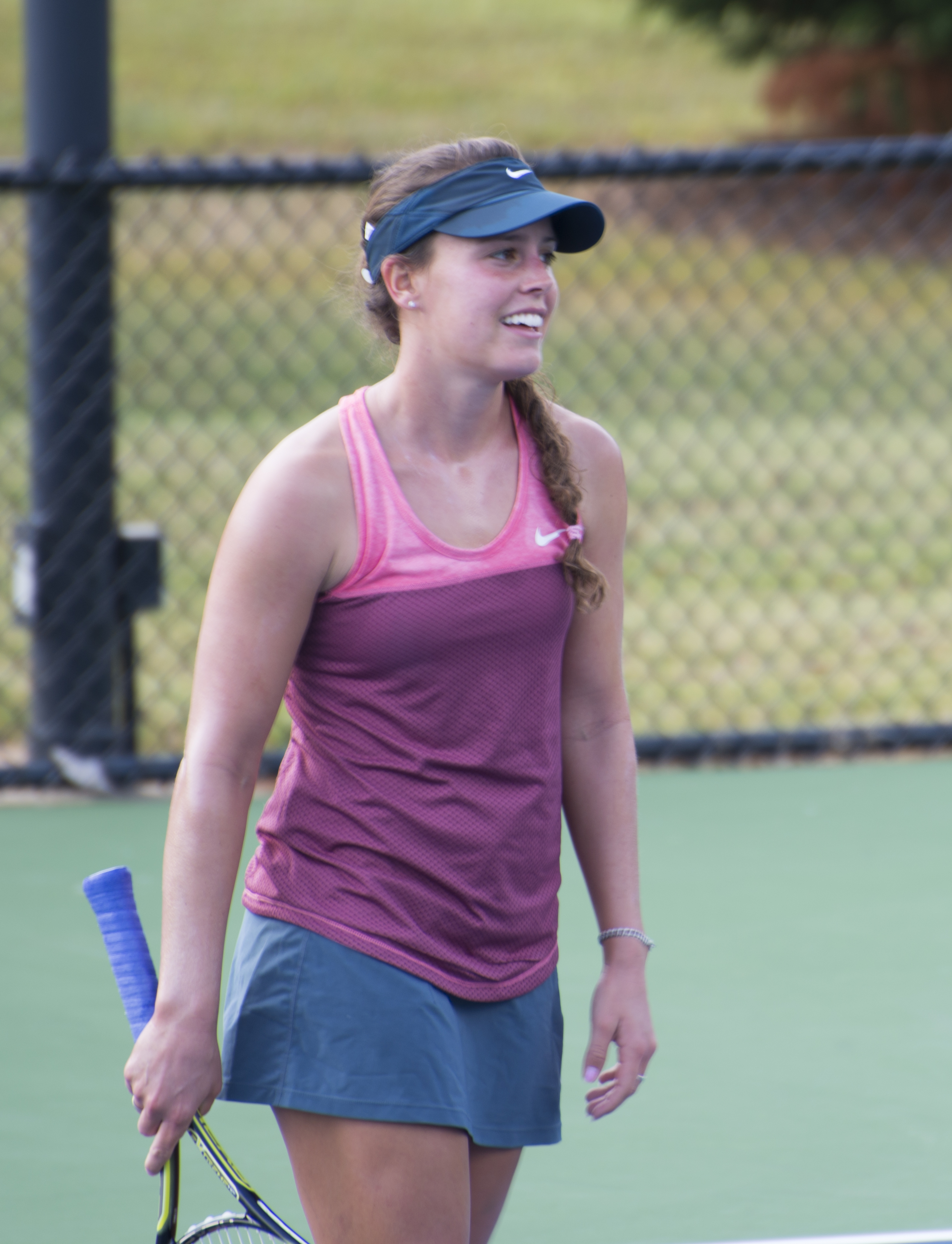 At the event in Rock Hill